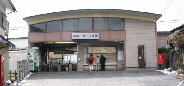 Keio Katakura Station